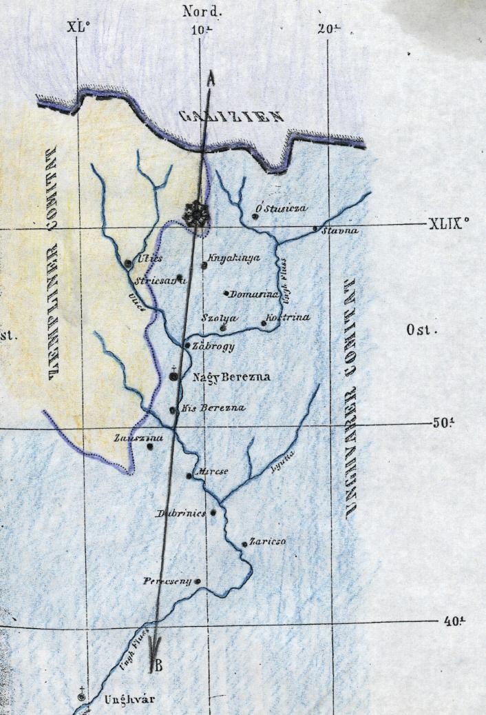 Meteor Knjahynja. Map of fall